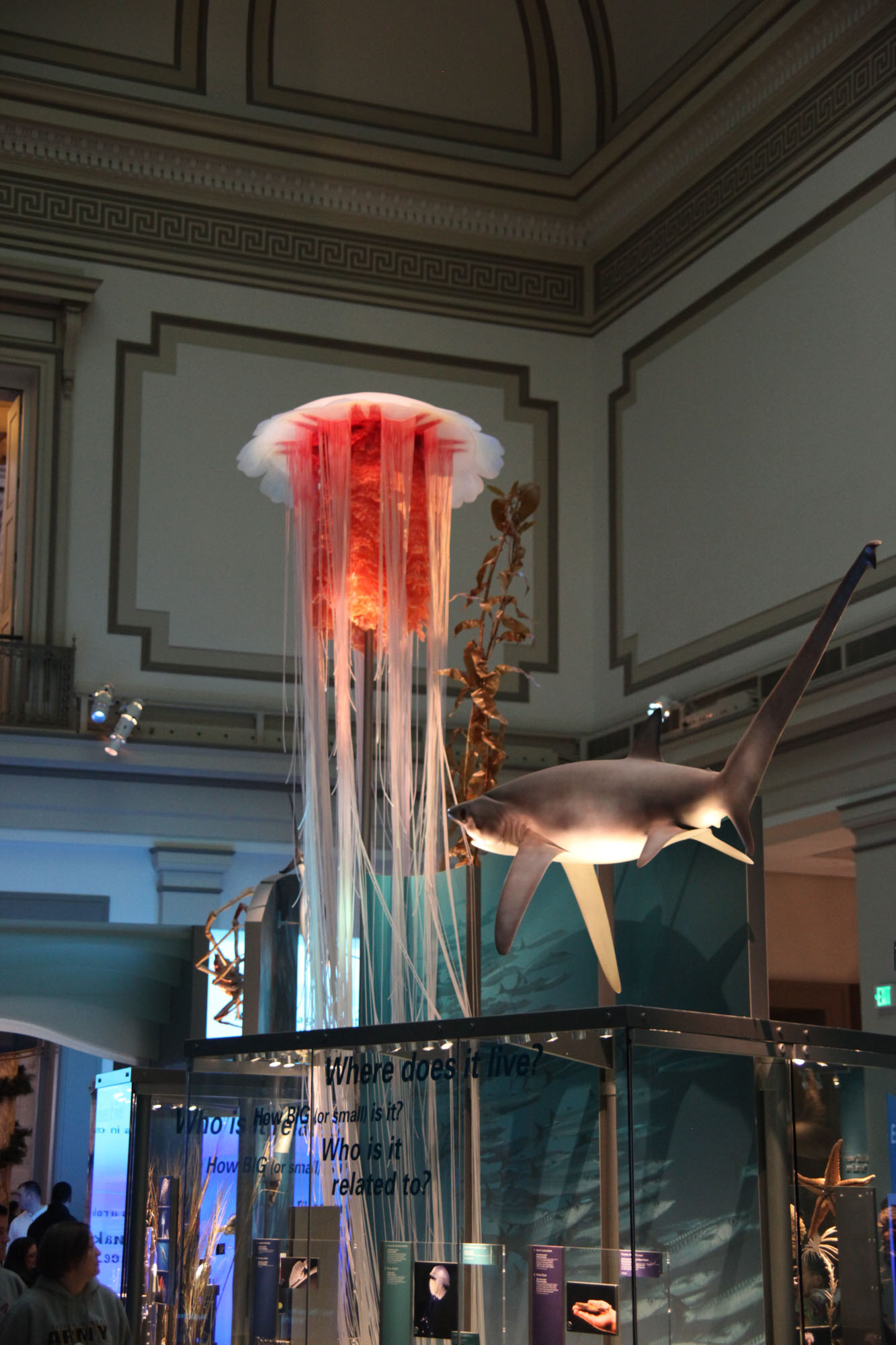 Models of a Lion's Mane Jellyfish (Cyanea capillata) and a Thresher Shark (Alopias macrourus) at the Sant Hall of Oceans at the Smithsonian Museum of Natural History in Washington, D.C., USA. The lion's mane jellyfish (Cyanea capillata) is the largest of all species of jellyfish. It lives in cold water, and has a lifespan of just a single year. They vary greatly in size, with smaller ones living in warmer waters (which has led some scientists to propose two sub-species rather than a single species). The bell can reach 8.2 feet (2.5 m) across, although smaller specimens have bells in the 20 inch (50 cm) range. The long, silvery tentacles can be anywhere from 30 feet to 100 feet (9.1 m to 30.5 m). They are very, very sticky, and are grouped into eight clusters of about a hundred each. Nearer the center of the lion's mane jellyfish is a mass of tangled, colored arms -- which gives the jelly its name (because this looks like a lion's mane). This mass is bright red in large specimens, but orange or tan in smaller ones. They feed on plankton, small fish, and other jellyfish. Their tentacles carry a poisonous toxin which can kill smaller animals, but which provides only a painful sting to human beings. Birds, large fish, and sea turtles are their primary predator. Thresher sharks are found in the temperate and tropical oceans of the world. They prefer the open ocean, where they feed on bluefish, tuna, mackerel) squid, and cuttlefish. The tail is used to stun prey. They live to be about 20 years old, but breed infrequently. They are very prone to overfishing, and are not a threat to human beings.